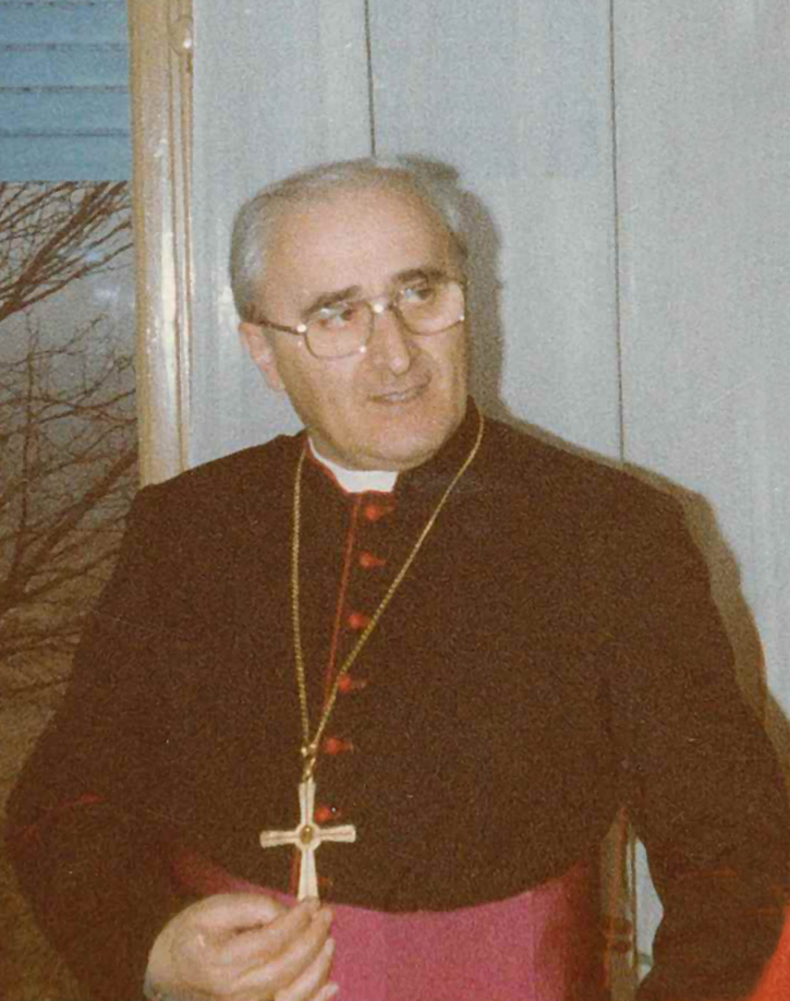 Bishop Paolo Magnani in Caselle Landi (LO), 1982.